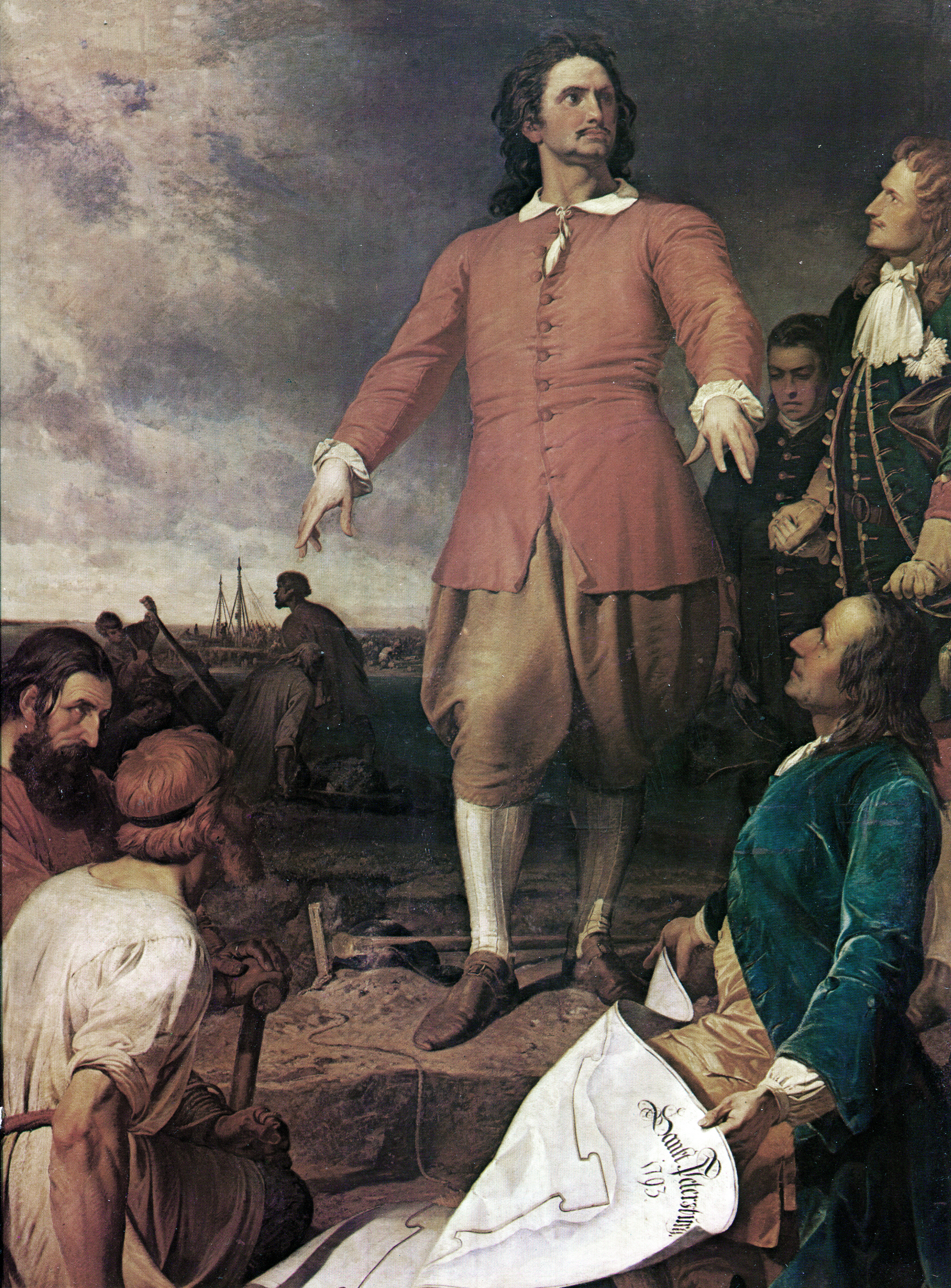 Peter the Great Founding St. Petersburg, 1703. Oil on canvas. Maximilianeum Foundation, Munich Germany. attrib.